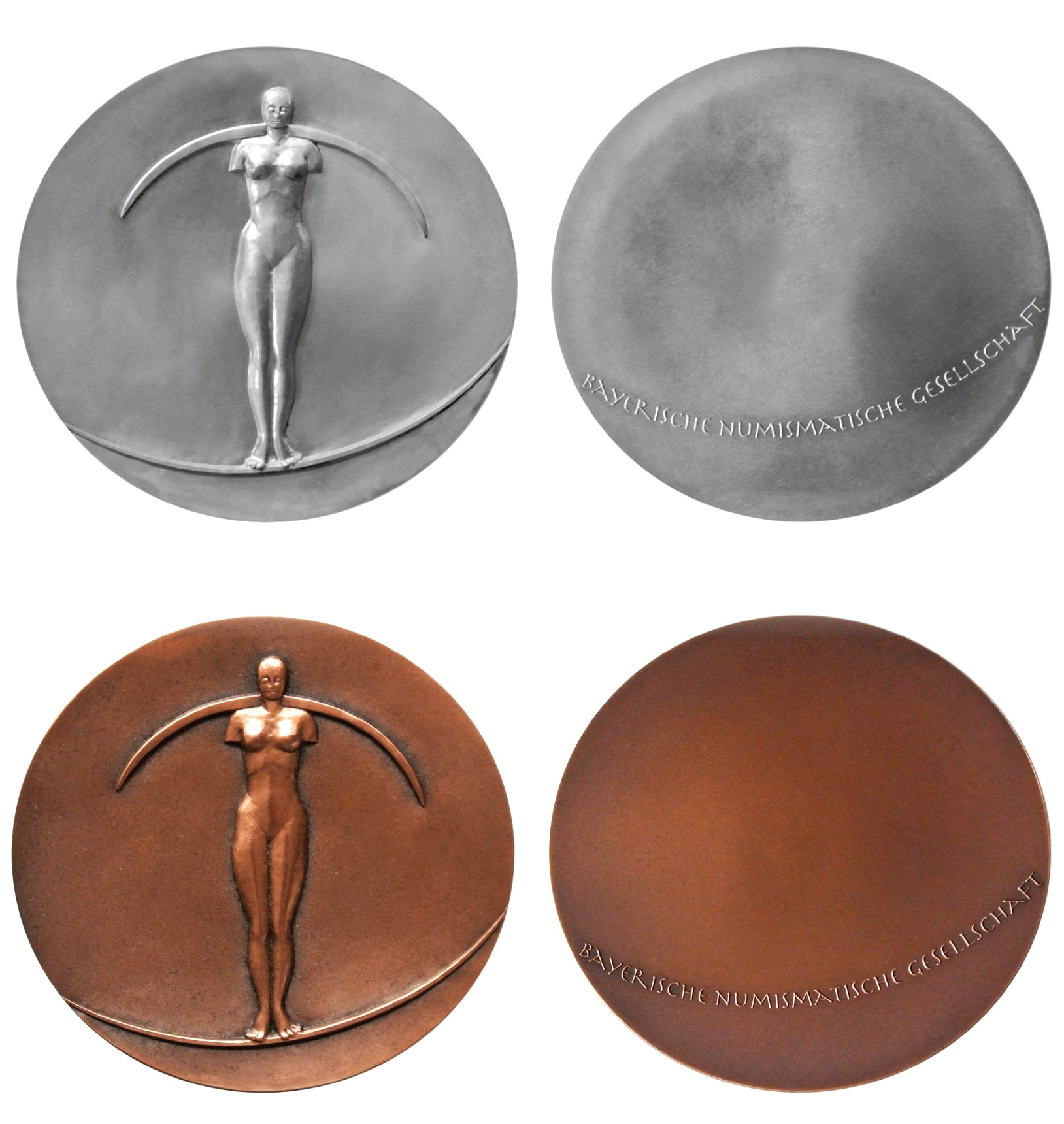 2016 medal of the Bayerische Numismatische Gesellschaft